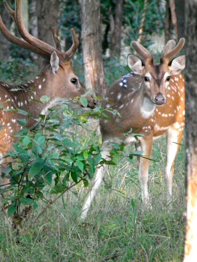 Two Chital stags, both in velvet.